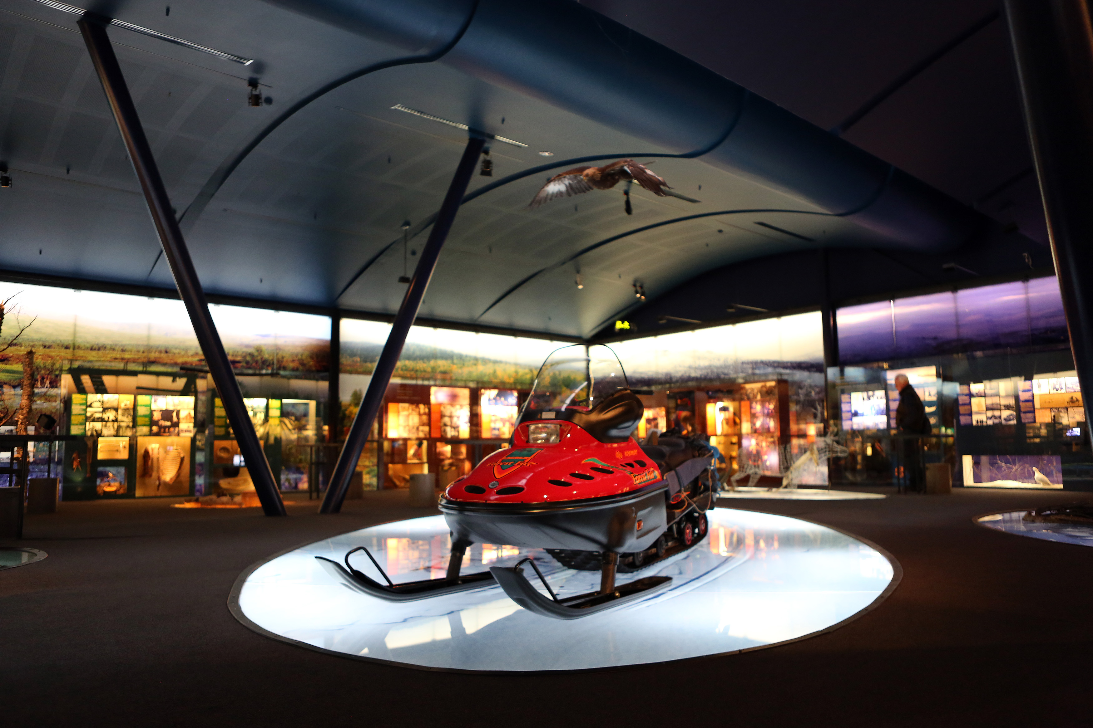 Siida museum, dedicated to the history and culture of the Sámi people, in Inari, municipality of Inari, Finland.